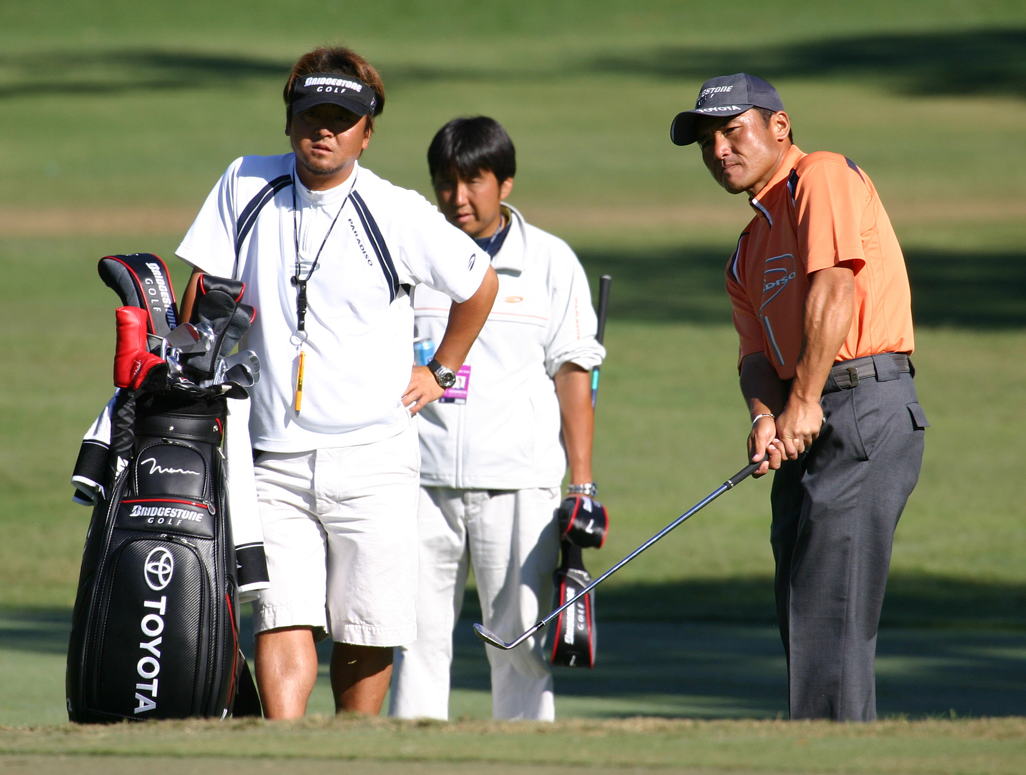 Shigeki Maruyama at the 2006 Chrysler Championship PGA tournament, Palm Harbor, Florida, practice round.